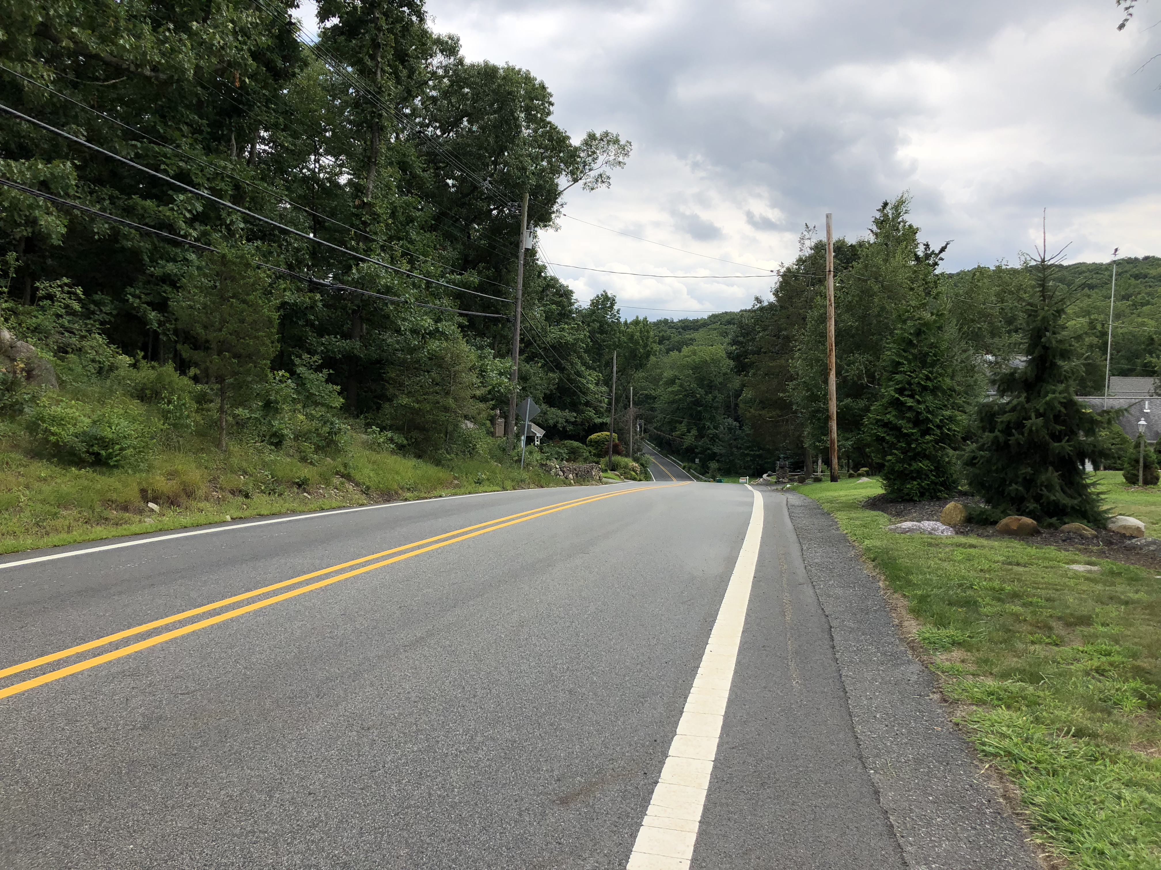 View south along Morris County Route 511 (Boonton Avenue) at Crestfield Road in Boonton Township, Morris County, New Jersey